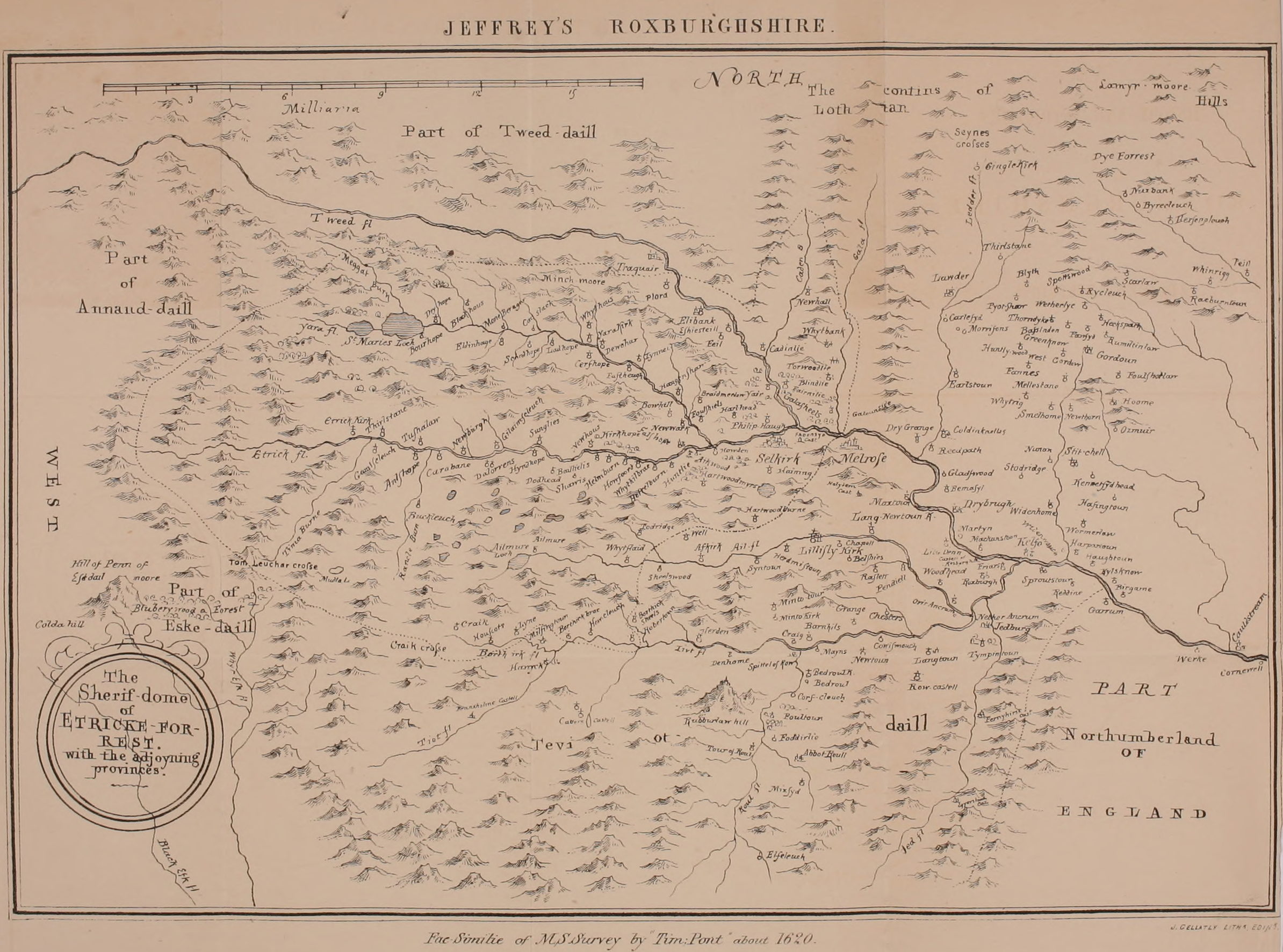 Map of Roxburghshire based on Timothy Pont's map